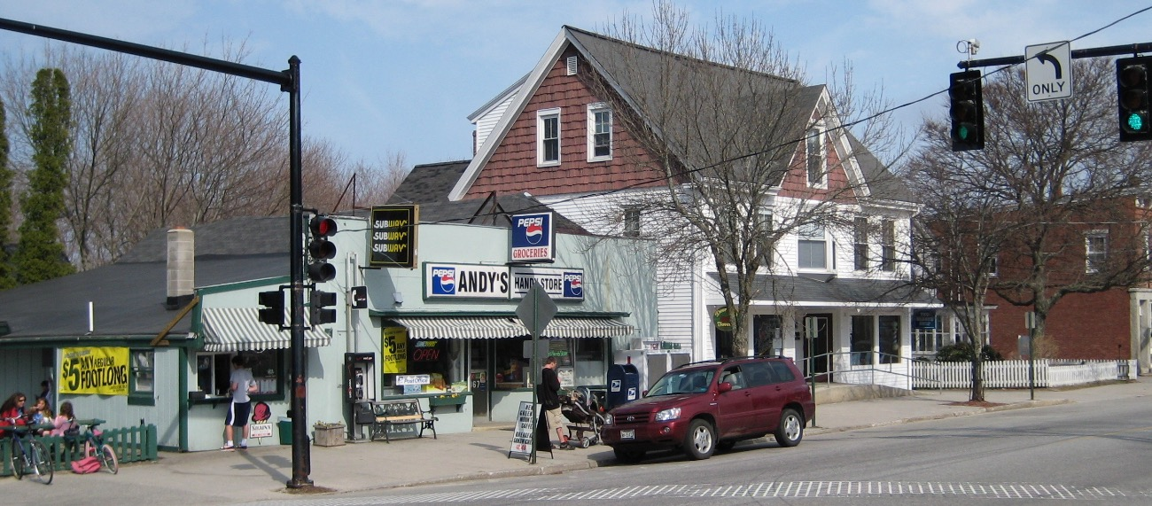 Andy's Handy Store, at the corner of Main and East Elm Streets in the Upper Village, looking east from Latchstring Park in 2008. Known locally as Handy Andy's, it was the location of the first phone call between Yarmouth and Portland, Maine.